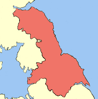 This is an image of the 802 of the historic Kingdom of Northumbria which is on the island of Great Britain. I created this image. Created under this guidence of this of historical source of a 802 map of Britain, which itself was developed by cartographer and historian William R. Shepherd.